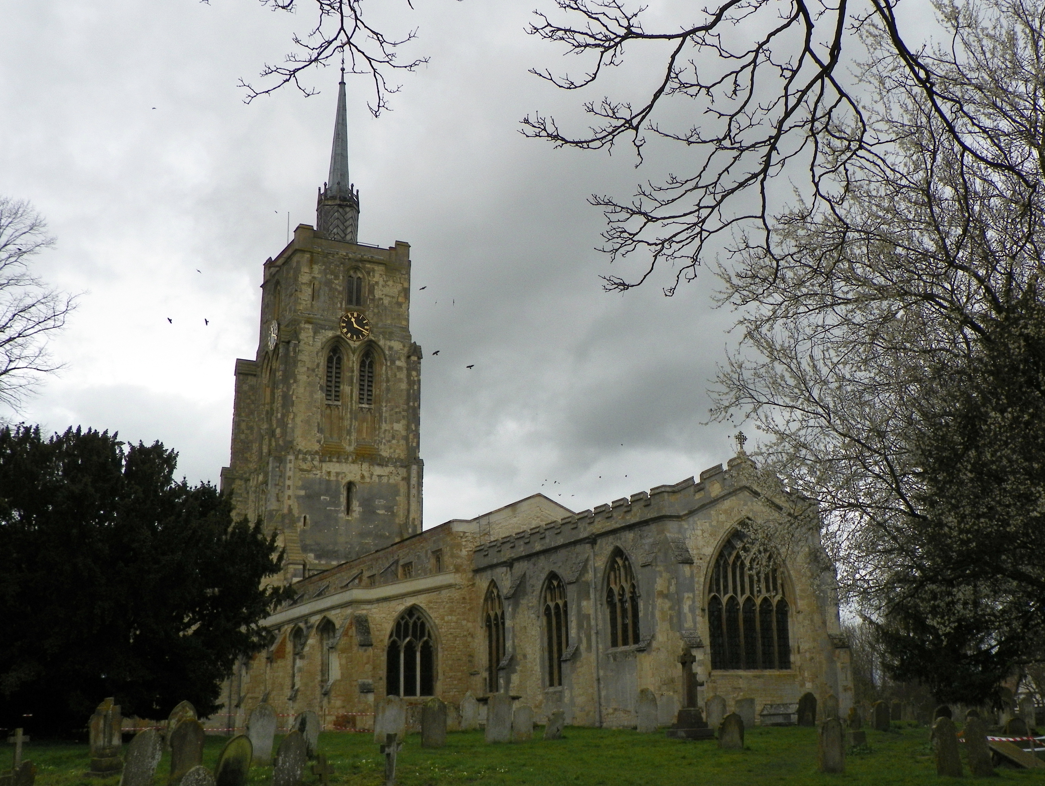 St Mary's parish church, Ashwell, Hertfordshire, seen from the east